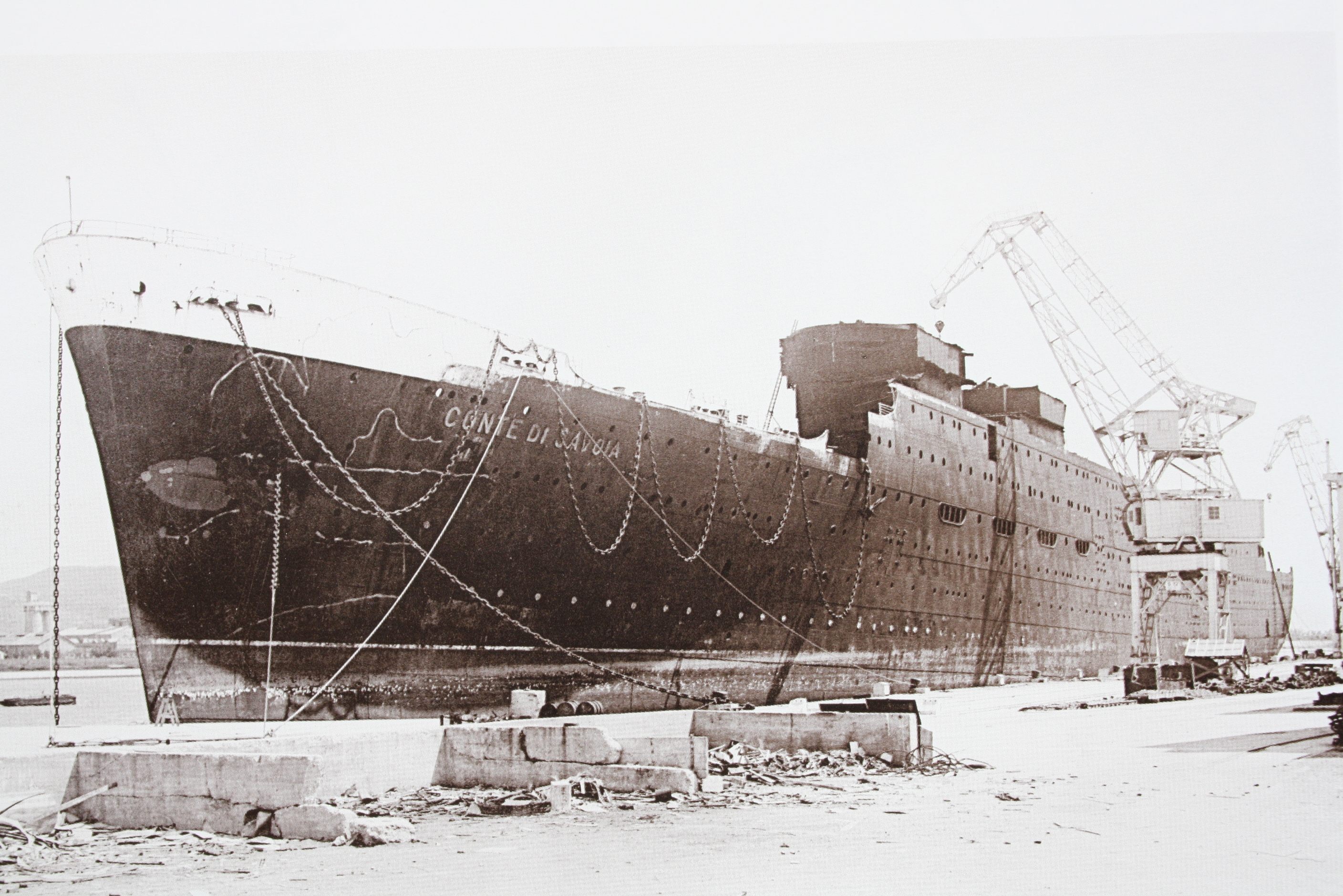 The scrapping of the Conte Di Savoia